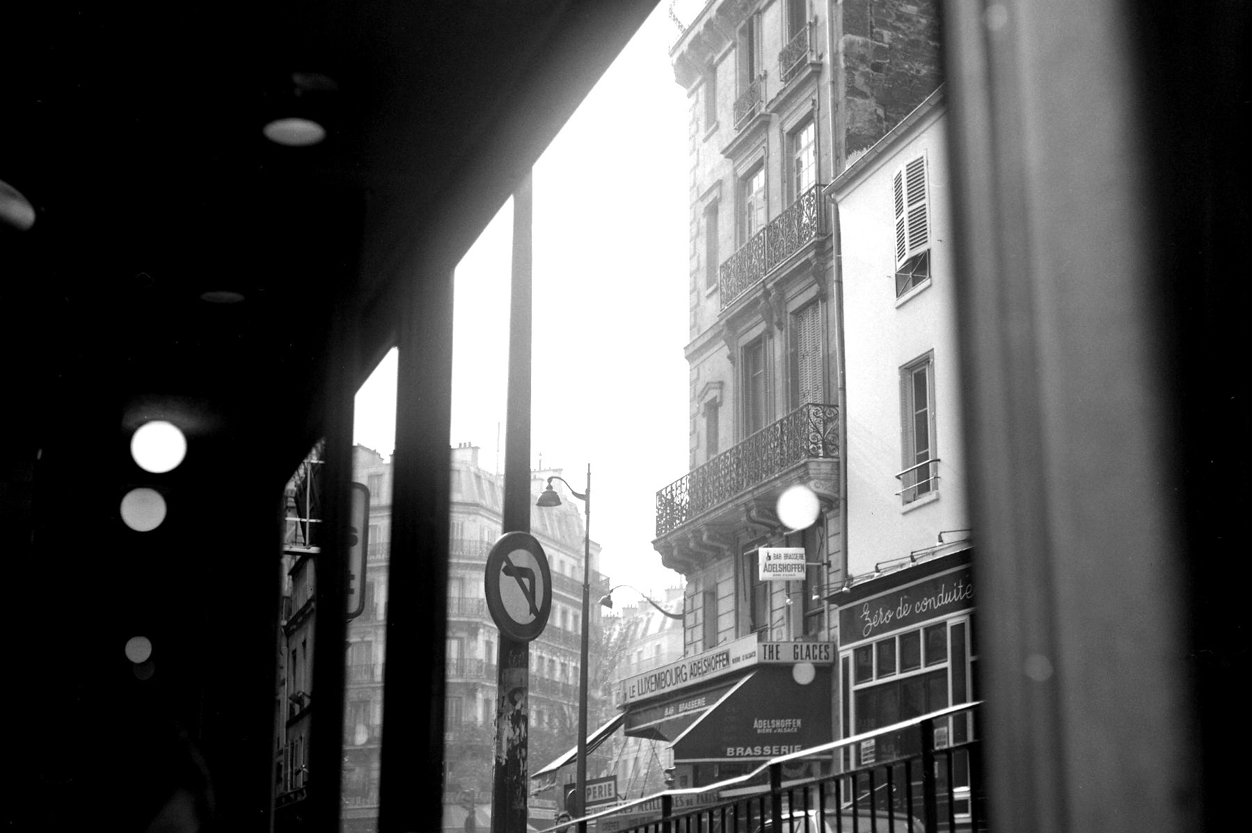 From a cafe on the rue Monsieur Le Prince, Yashica D TLR, Tri-X film